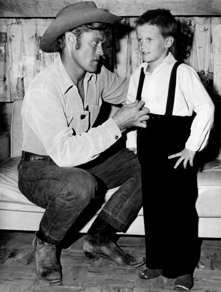 Photo of Chuck Connors and son Jeffrey on the set of the television program The Rifleman. This was Jeffrey's first acting role-a part in the episode Tension.